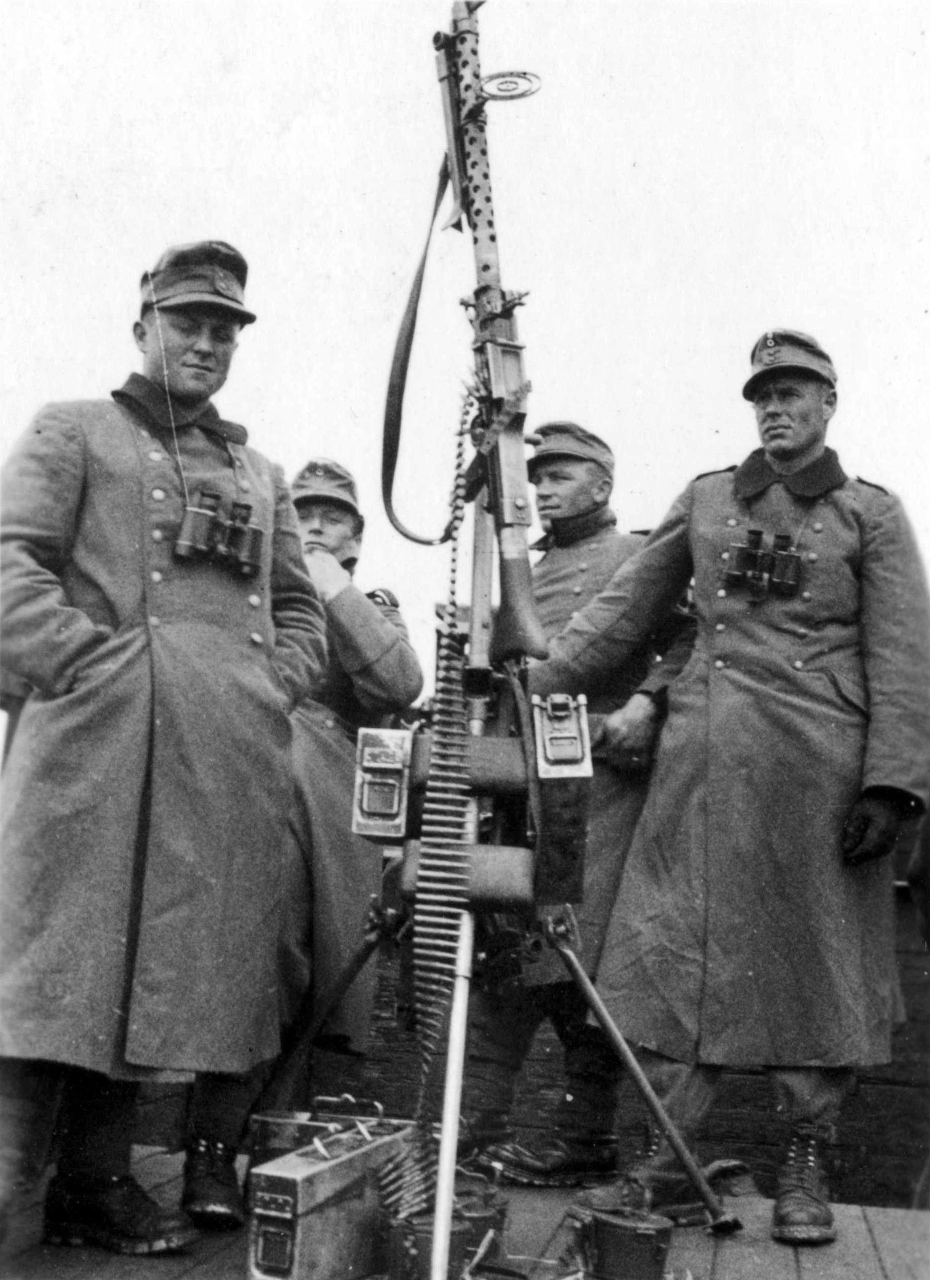 Tittel / Title: Maskingeværstilling 1940 Dato / Date: 1940 Fotograf / Photographer: Karl Marth Sted / Place: Ukjent/Unknown Eier / Owner Institution: Arkiv i Nordland Lenke / Link: Arkiv i Nordland Arkivreferanse /Archive reference: AIN.NA143.0175 Fra Dag Skogheims Privatarkiv